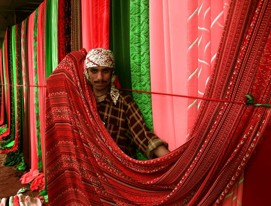 Sunday textile market on the sidewalks of Karachi, Pakistan.